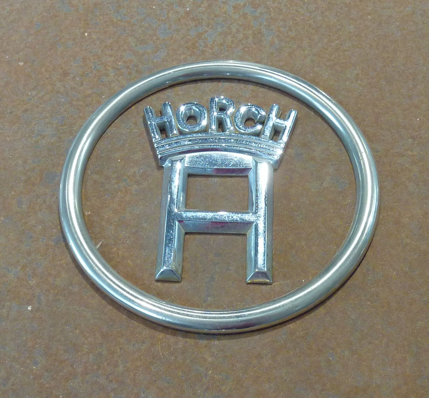 Horch Emblem Logo am sog. Bruhn-Horch